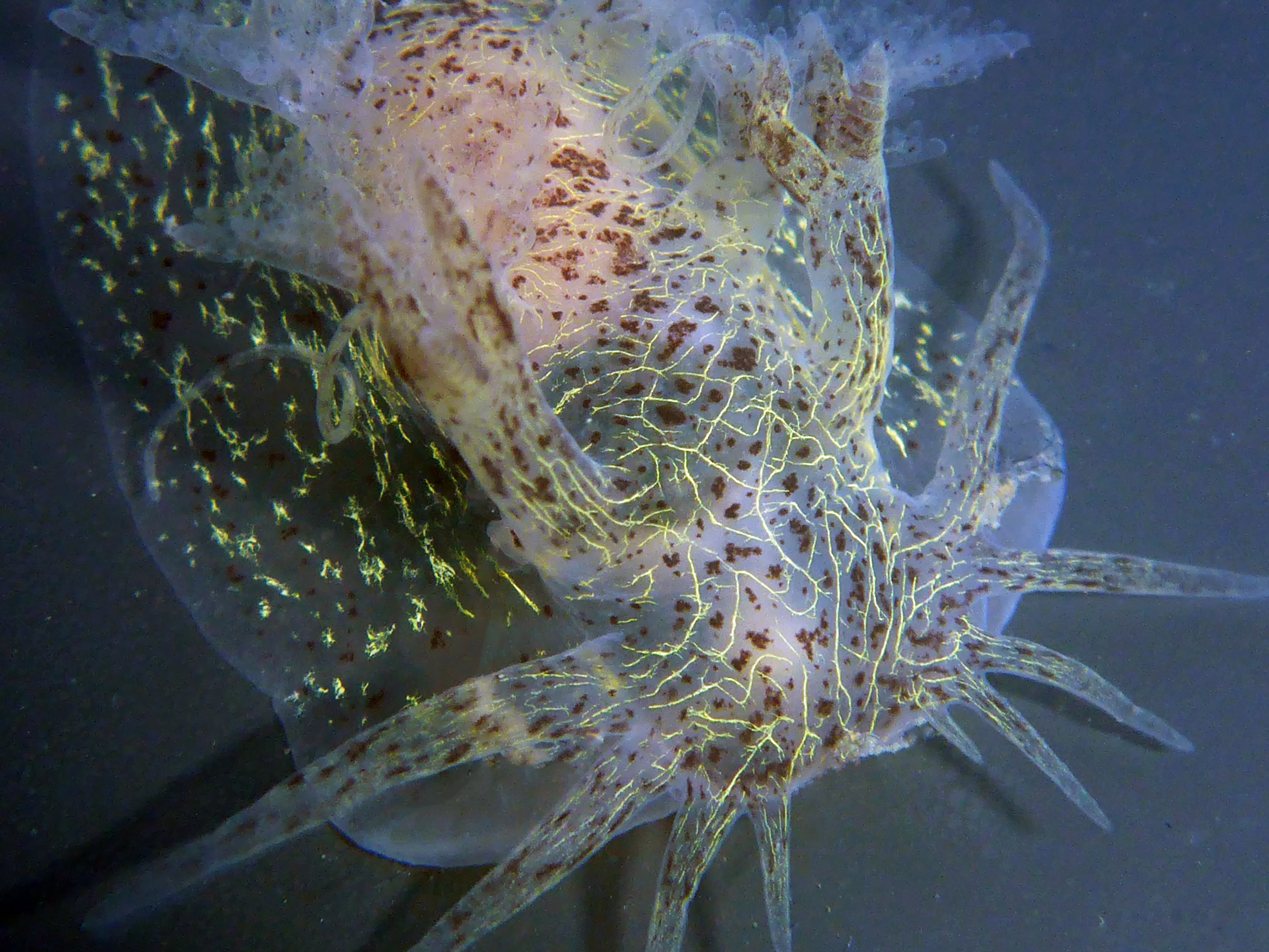 Close-up of the nudibranch Dendronotus orientalis.